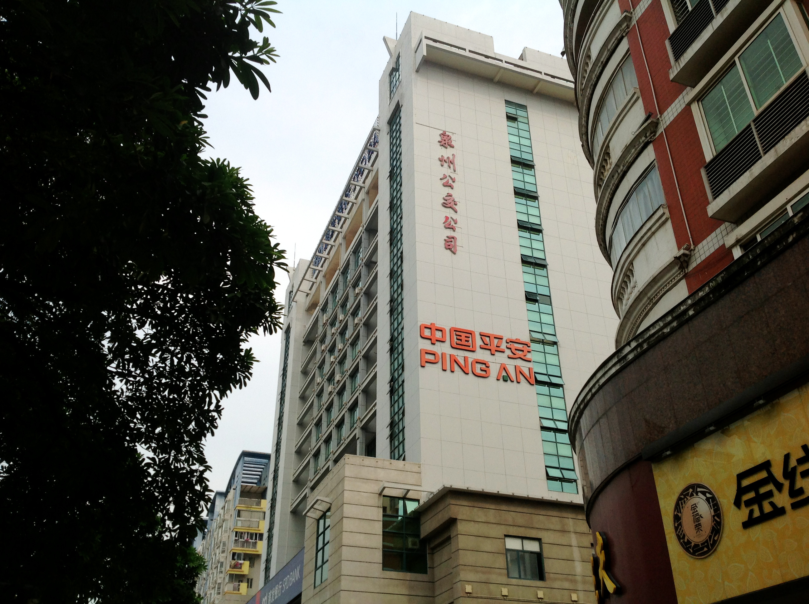 Zayton bus company's building